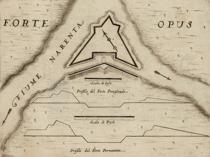 Vincenzo Coronelli - Repubblica di Venezia p. IV. Citta, Fortezze, ed altri Luoghi principali dell' Albania, Epiro e Livadia, e particolarmente i posseduti da Veneti descritti e delineati dal p. Coronelli, Venice, 1688.